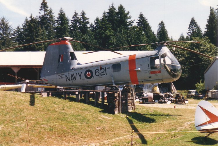 HUP-3 helicopter at the Canadian Museum of Flight in south Surrey BC on 23 July 1988.